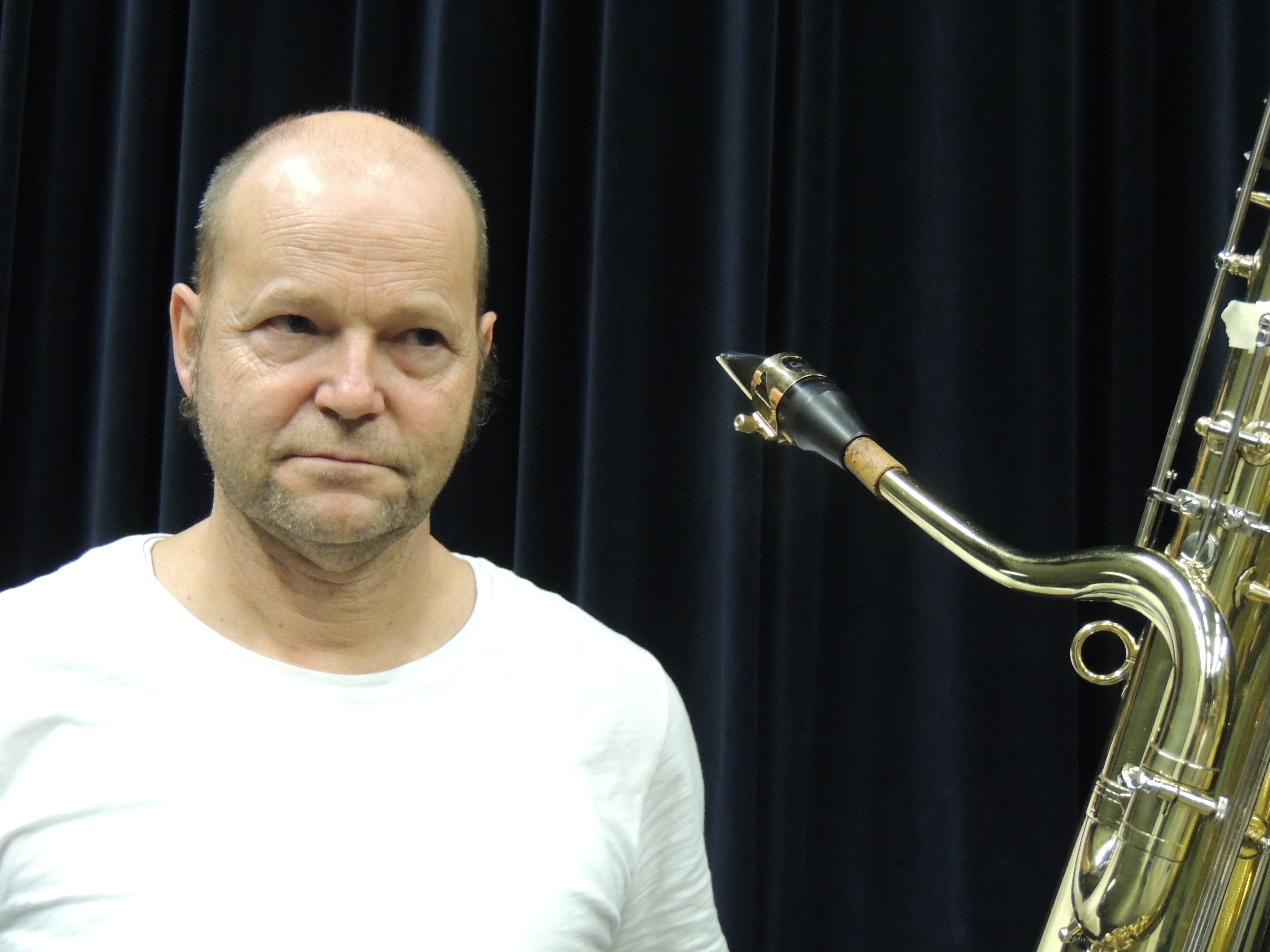 Thomas Mejer and his Contrabassaxophon